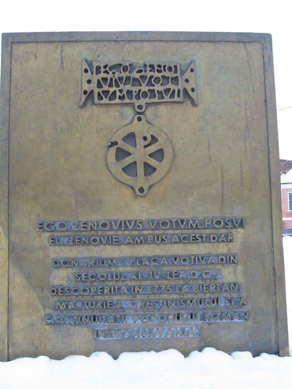 Made by me, December 2005.